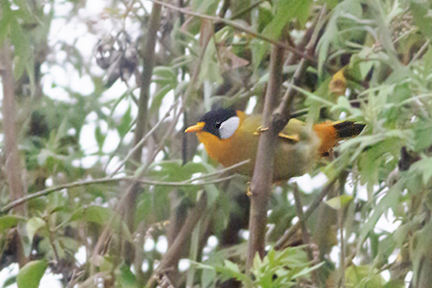 The species Silver-eared Mesia had been photographed from Neora Valley National Park in West Bengal, India on 27.04.2016.